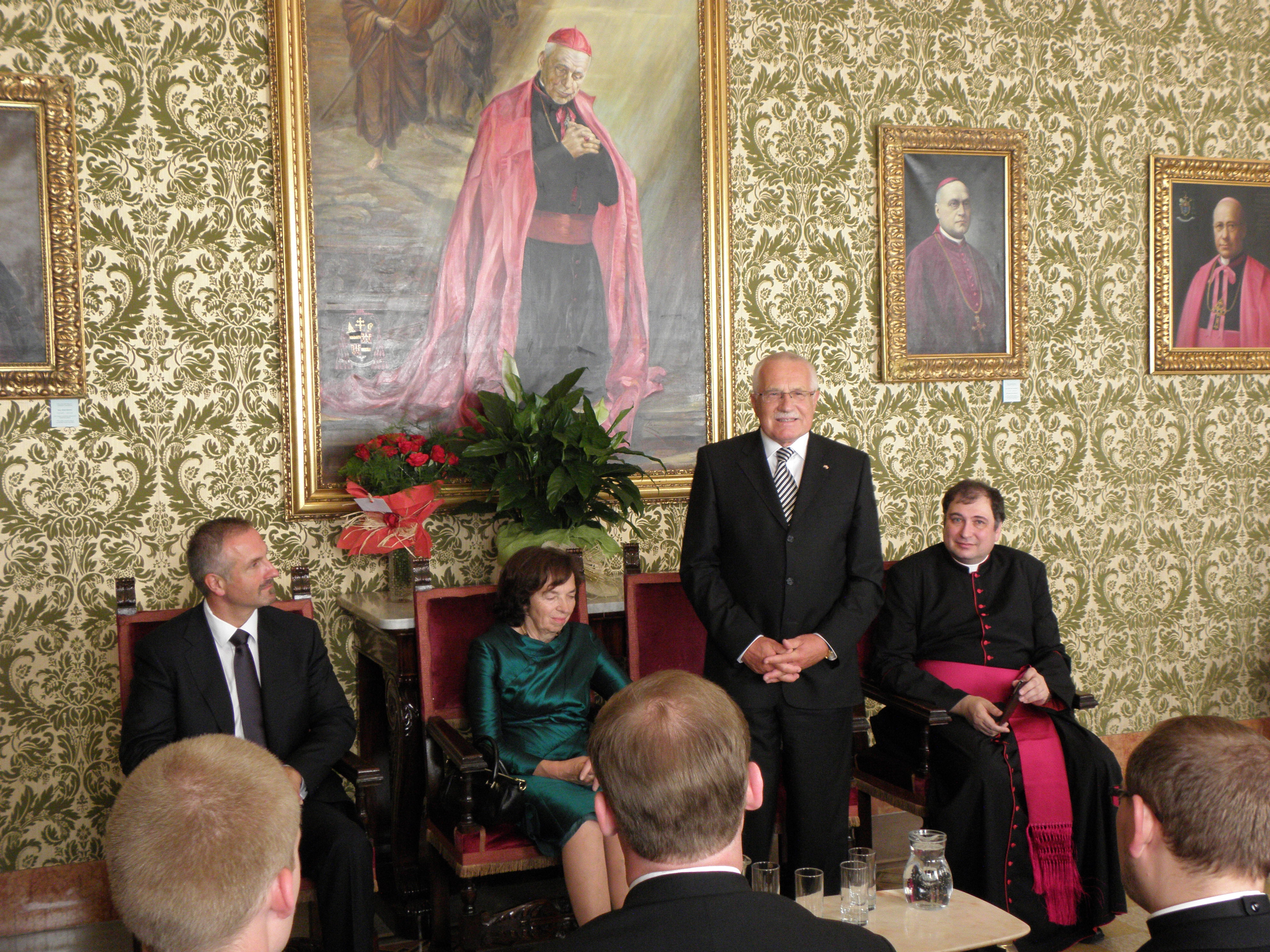 Václav Klaus on Nepomucenum